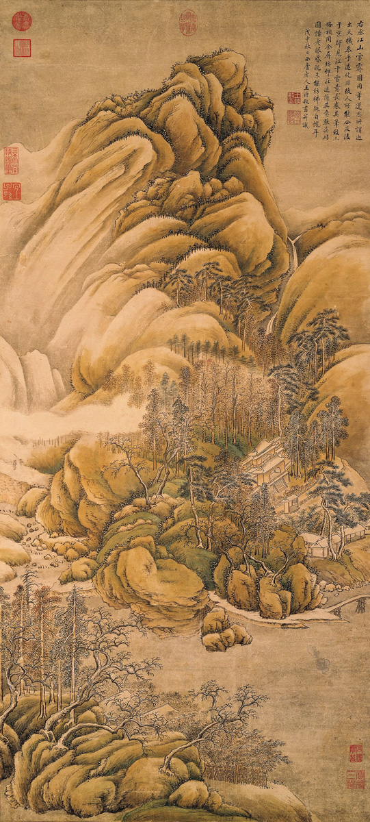 After Wang Wei's "Clearing of Rivers and Mountains after Snow" (仿王維江山雪霽) Hanging scroll, ink and colors on paper, 133.7 x 60 cm, National Palace Museum, Taipei